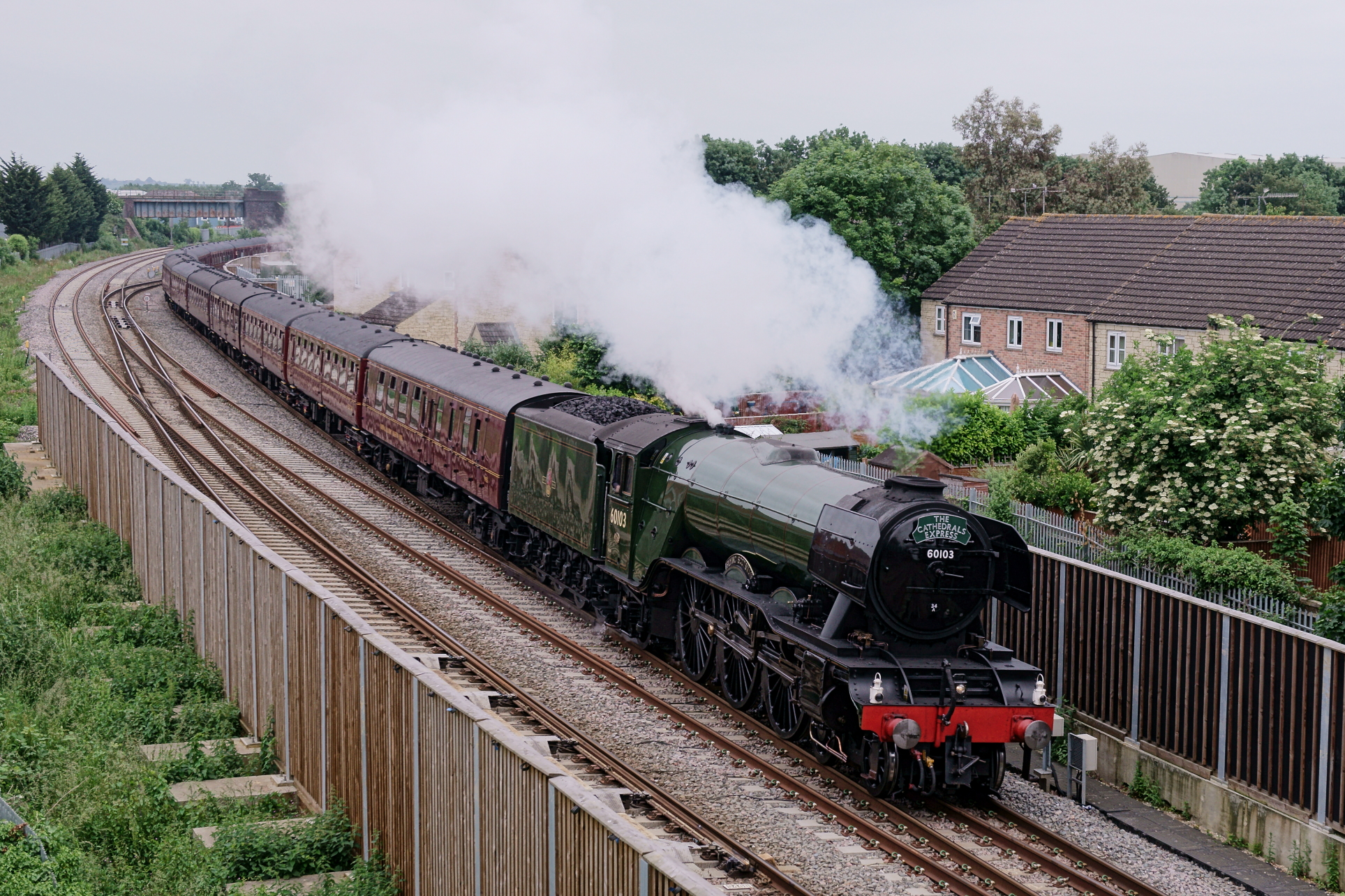 Seen passing through Bicester, with the first of two tours during that day.